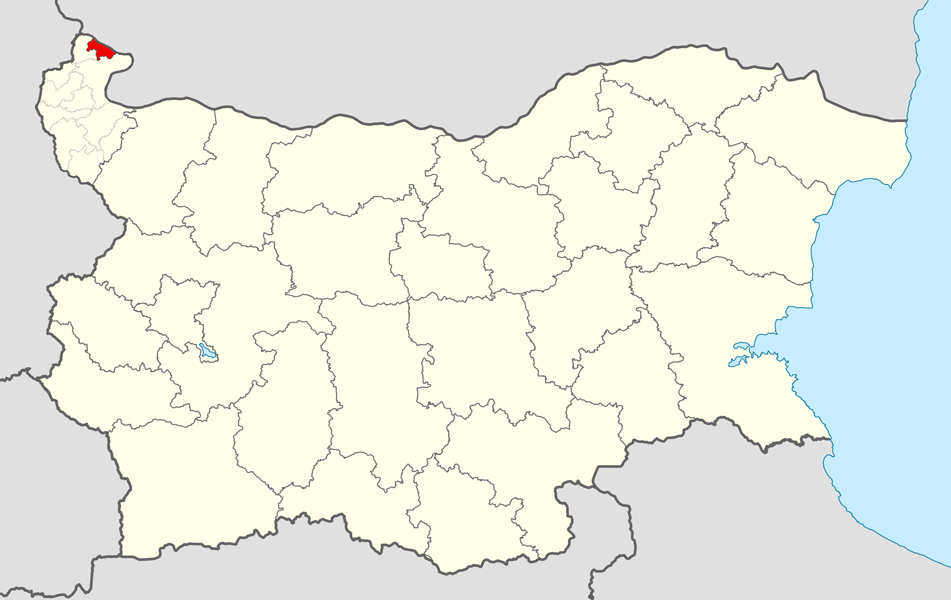 Location map of Novo Selo Municipality within Bulgaria and Vidin Province. Equirectangular projection, N/S stretching 130 %. Geographic limits of the map: N: 44.4° N S: 41.1° N W: 22.1° E E: 28.9° E